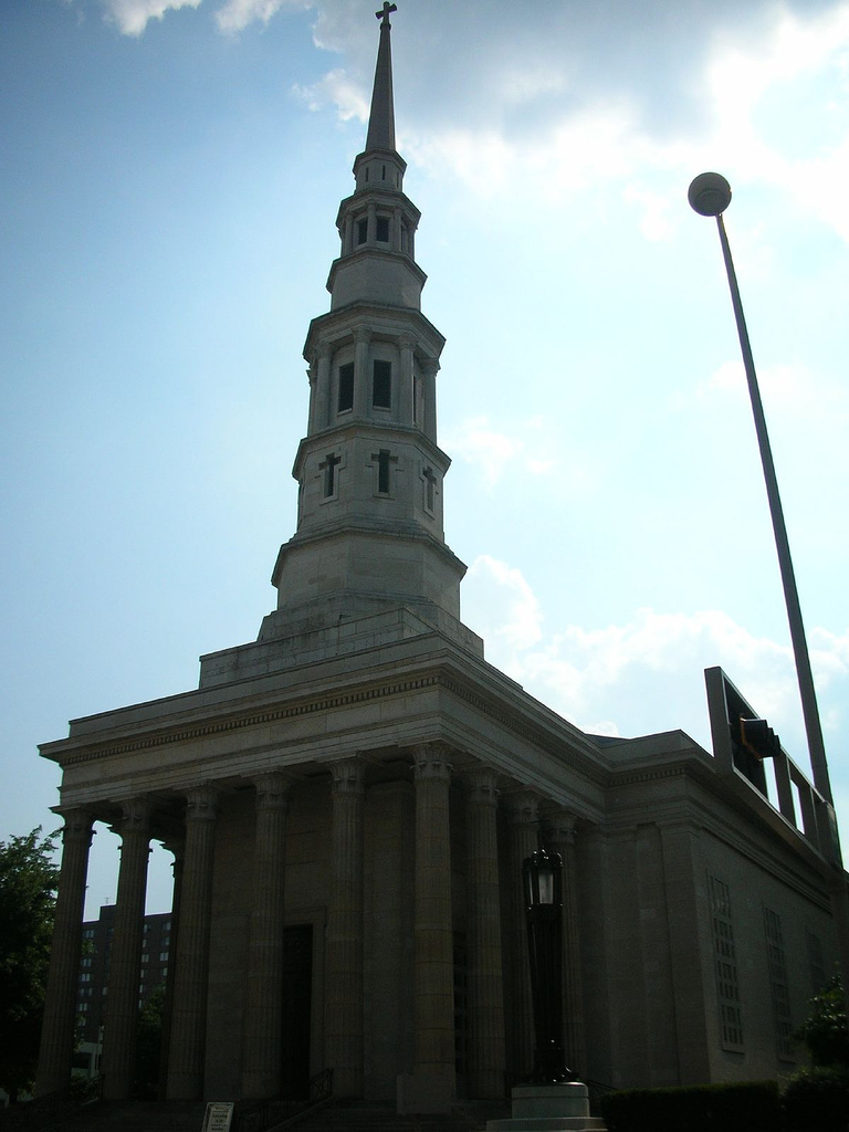 St. Peter in Chains cathedral in downtown Cincinnati, next to Cincinnati City Hall.